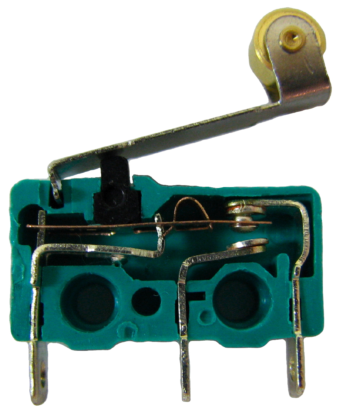 The inside of a microswitch.